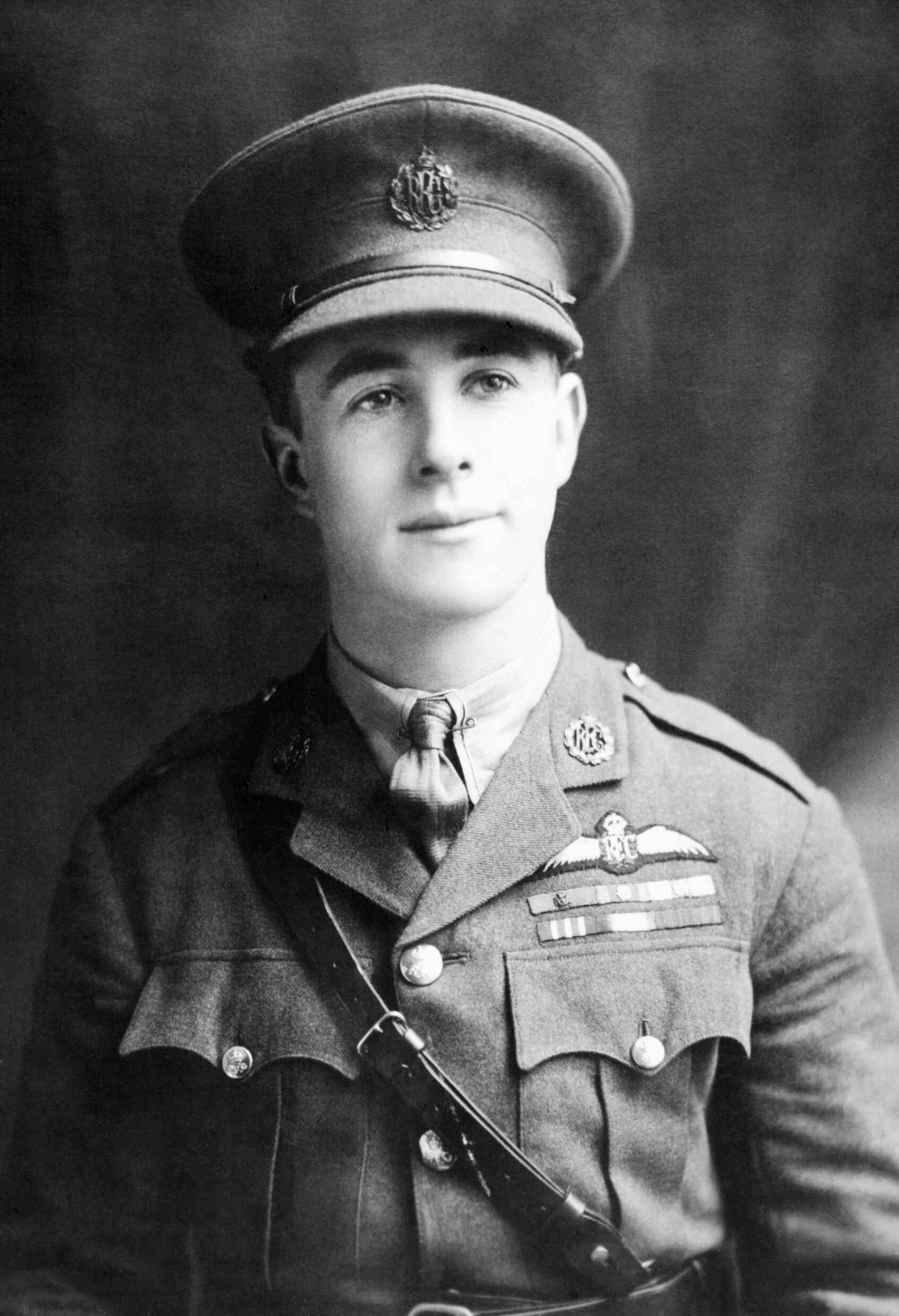 portrait of James McCudden, World War I flying ace